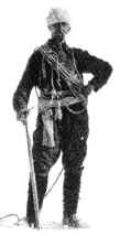 Conrad Kain photograph from about 1910. It's the standard photograph of him, undoubtedly published before 1923. It's on the wall, poster-sized, in the Conrad Kain hut in the Bugaboos.